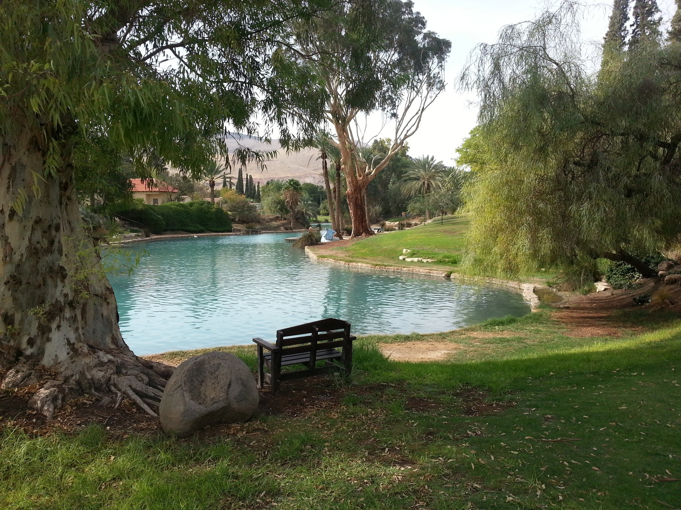 Geography of Israel